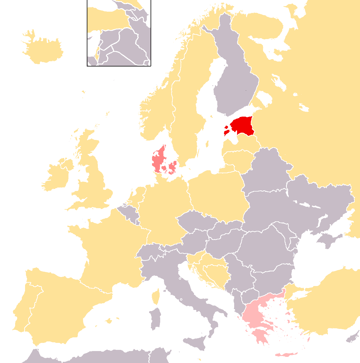 Map of Eurovision 2001